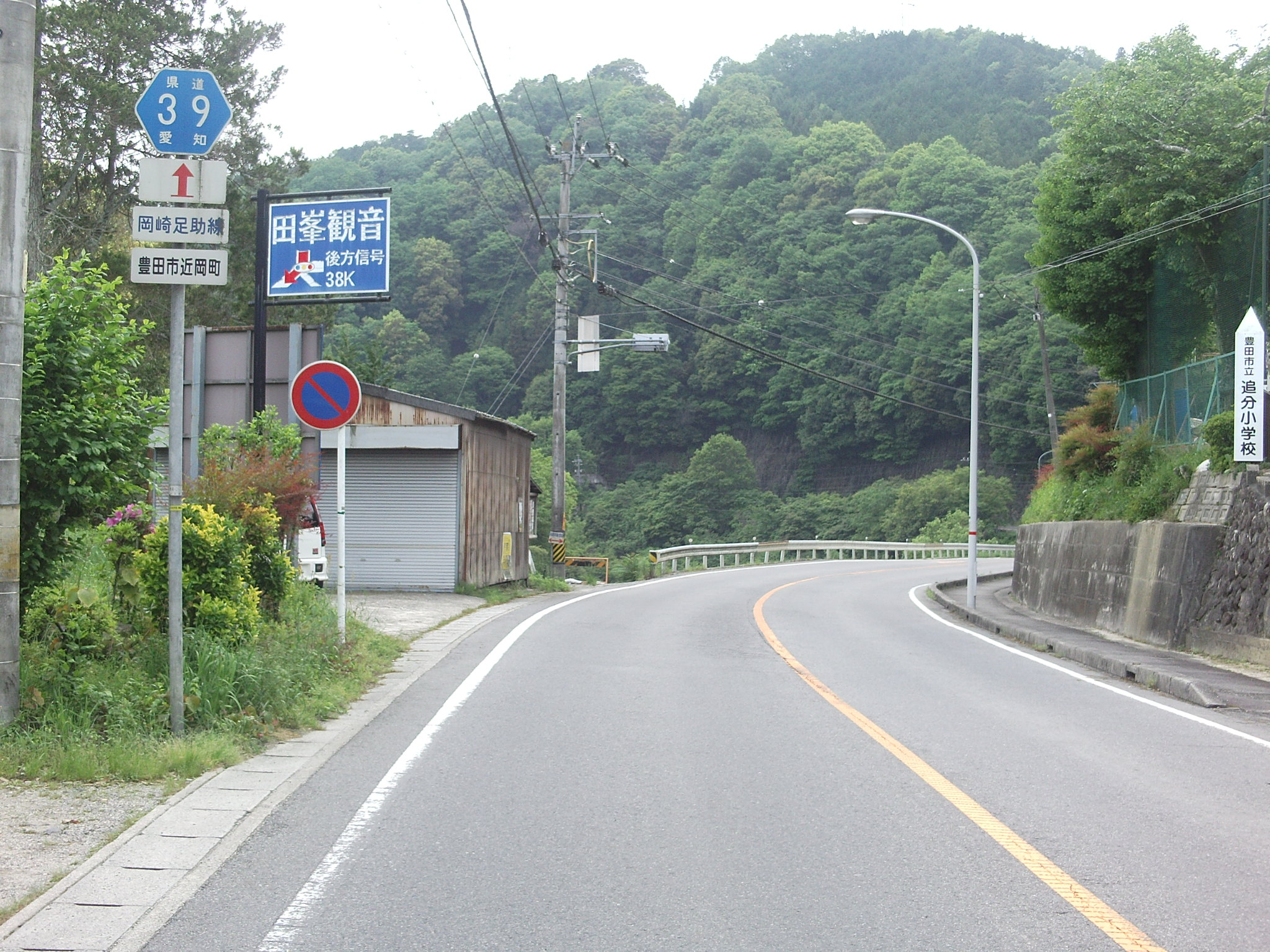 Aichi prefectural road No.39 in Chikaokacho, Toyota, Aichi.